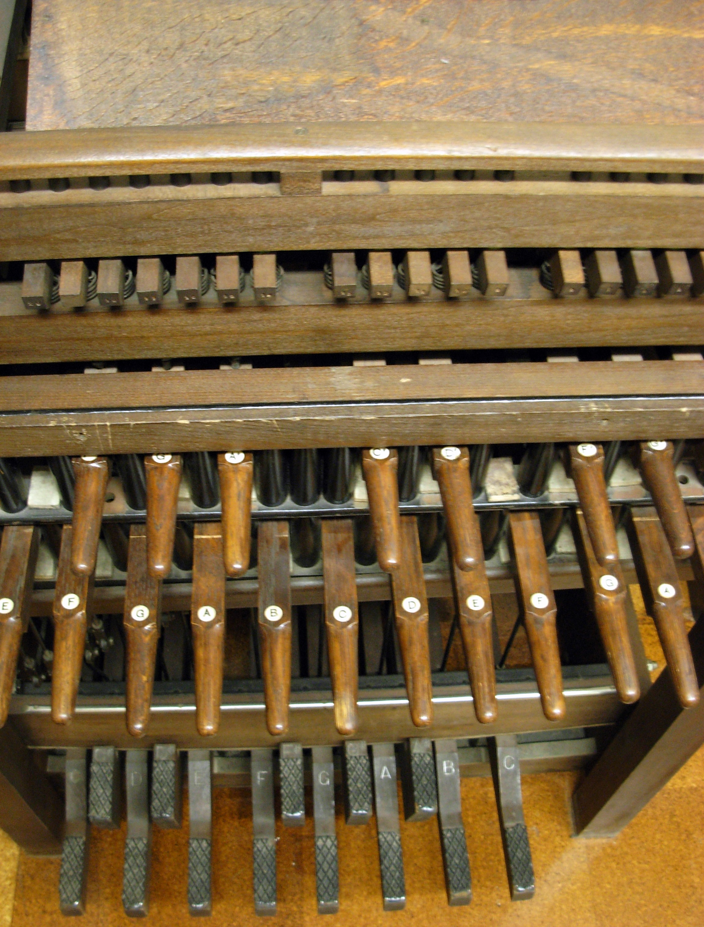 Carillon keyboard at the Mayo Clinic Plummer Building in Rochester, Minnesota